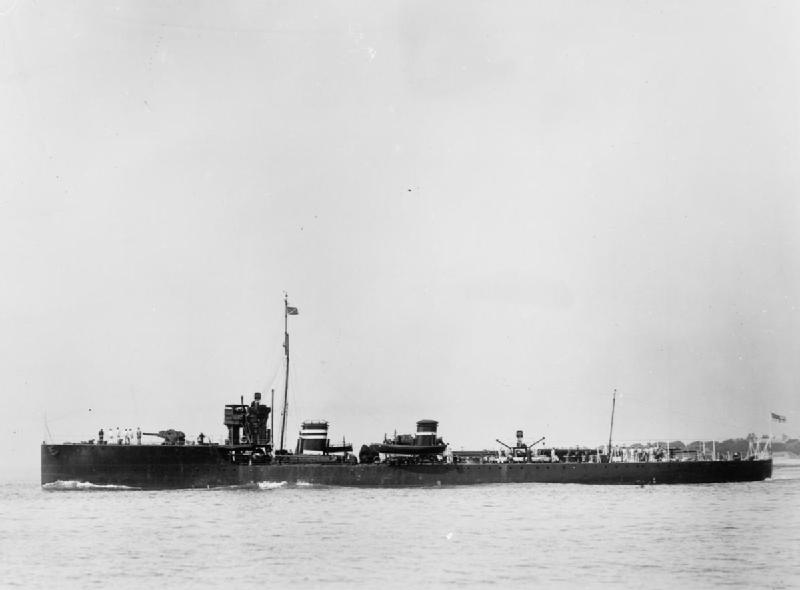 Photograph of British Acheron class destroyer HMS Lapwing.